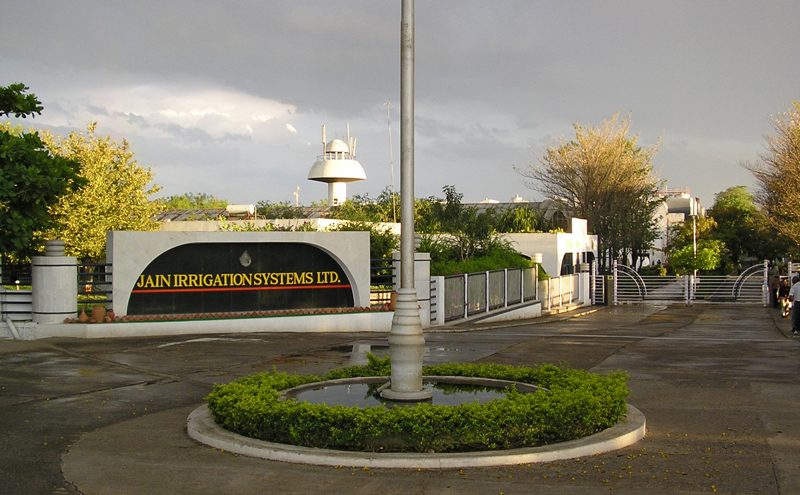 Jain Irrigation Systems Photograph by Jisl.